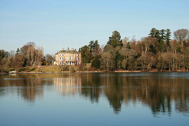 Haining Loch A beautiful loch surrounded by woodland on the south side of Selkirk. The Haining, a plain 18th century classical house, sits in the background. The original house was built in 1794, was re-modelled in 1819, and damaged by fire in 1944. The photograph was taken from a viewing platform by a woodland path.